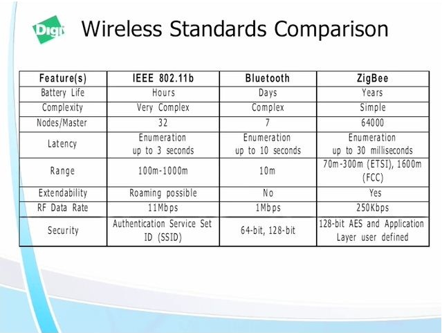 ZigBee Wireless Standards Comparison